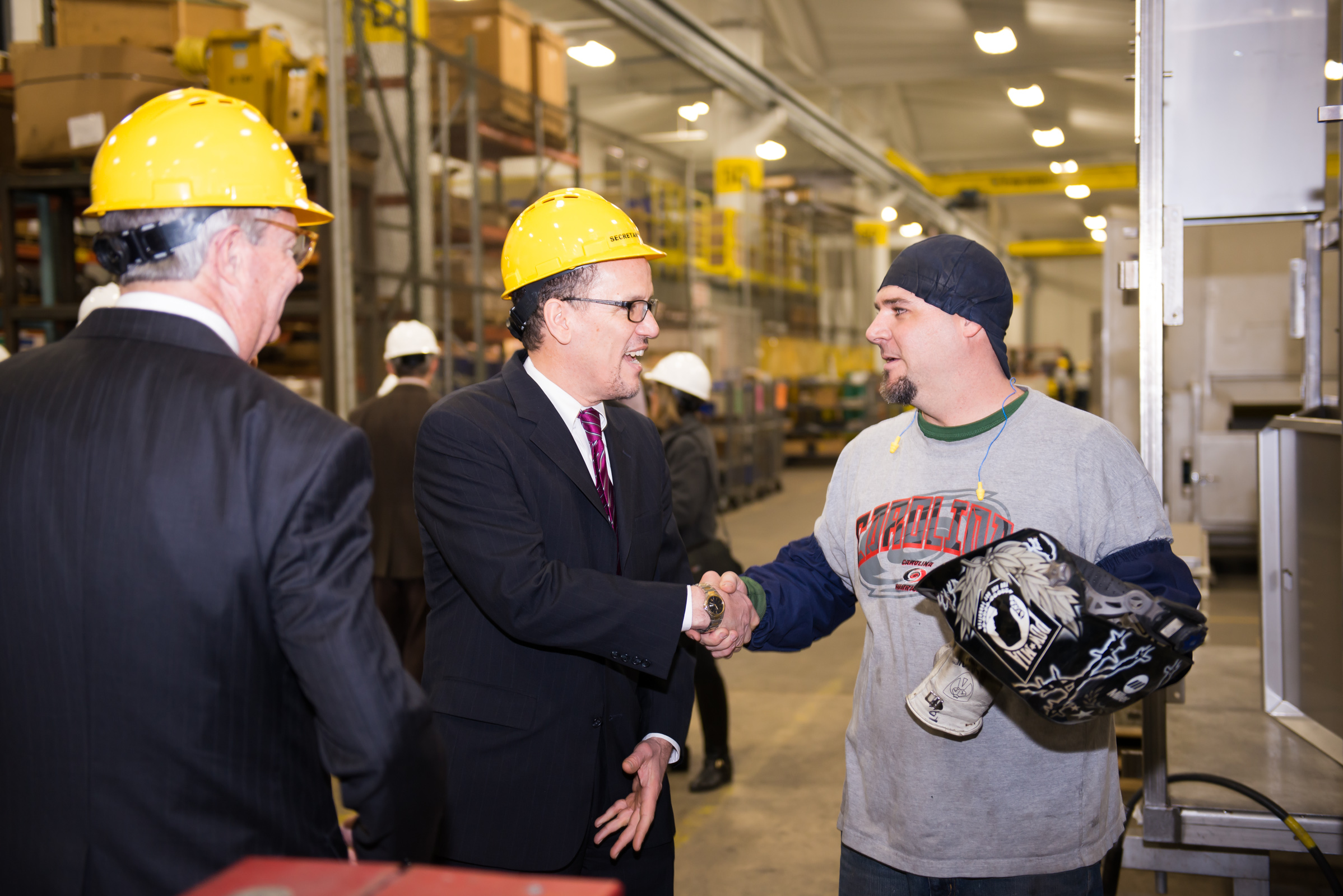 US Secretary Perez greets welder at Buhler Aeroglide Factory in Cary NC